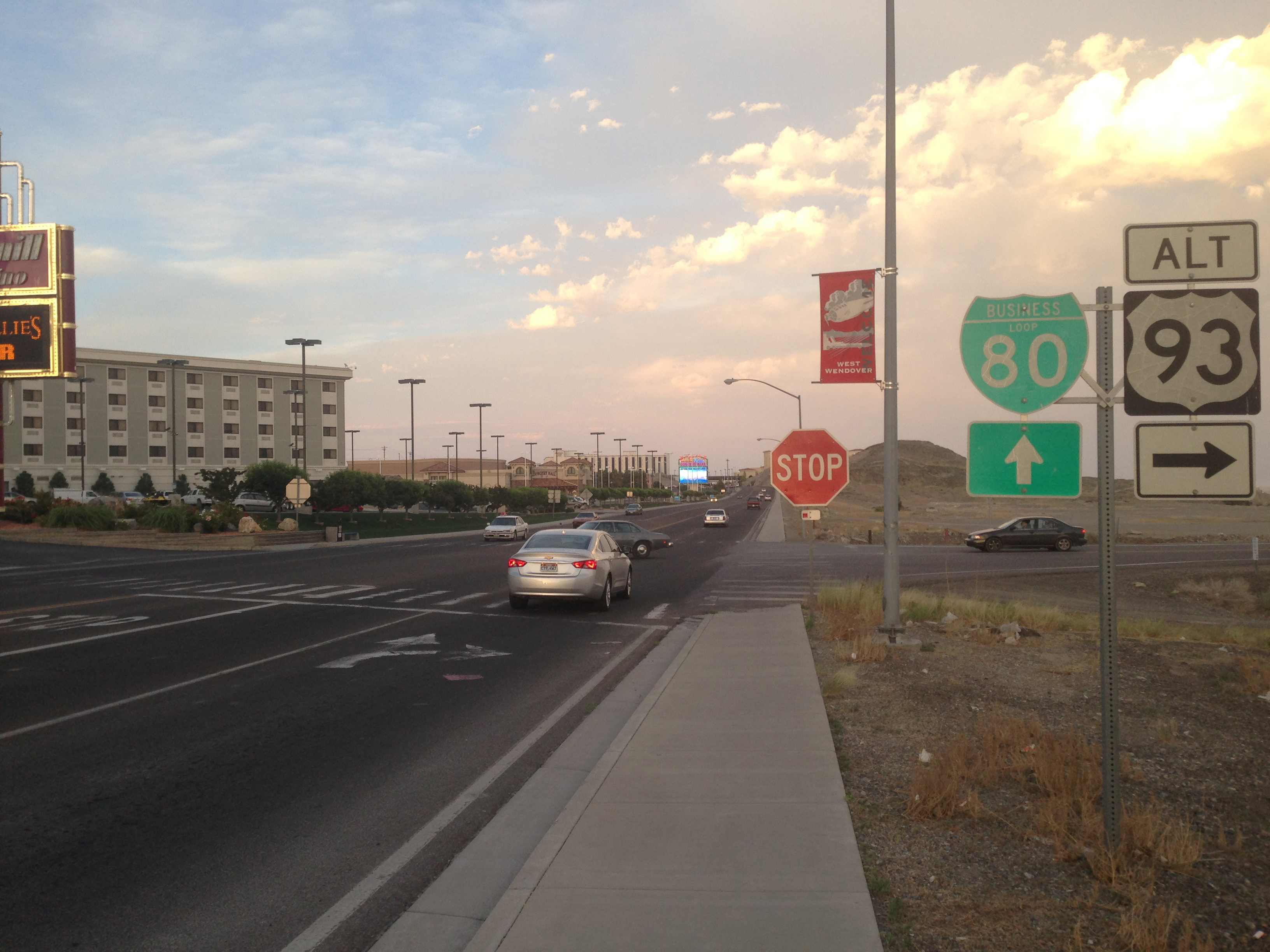 View east along Wendover Boulevard where U.S. Route 93 Alternate and Business Loop 80 diverge in West Wendover, Nevada